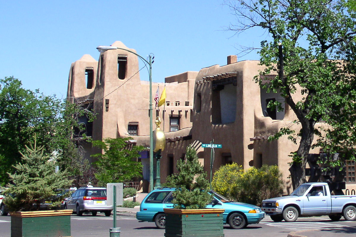 Santa Fe Fine Art Museum with cars